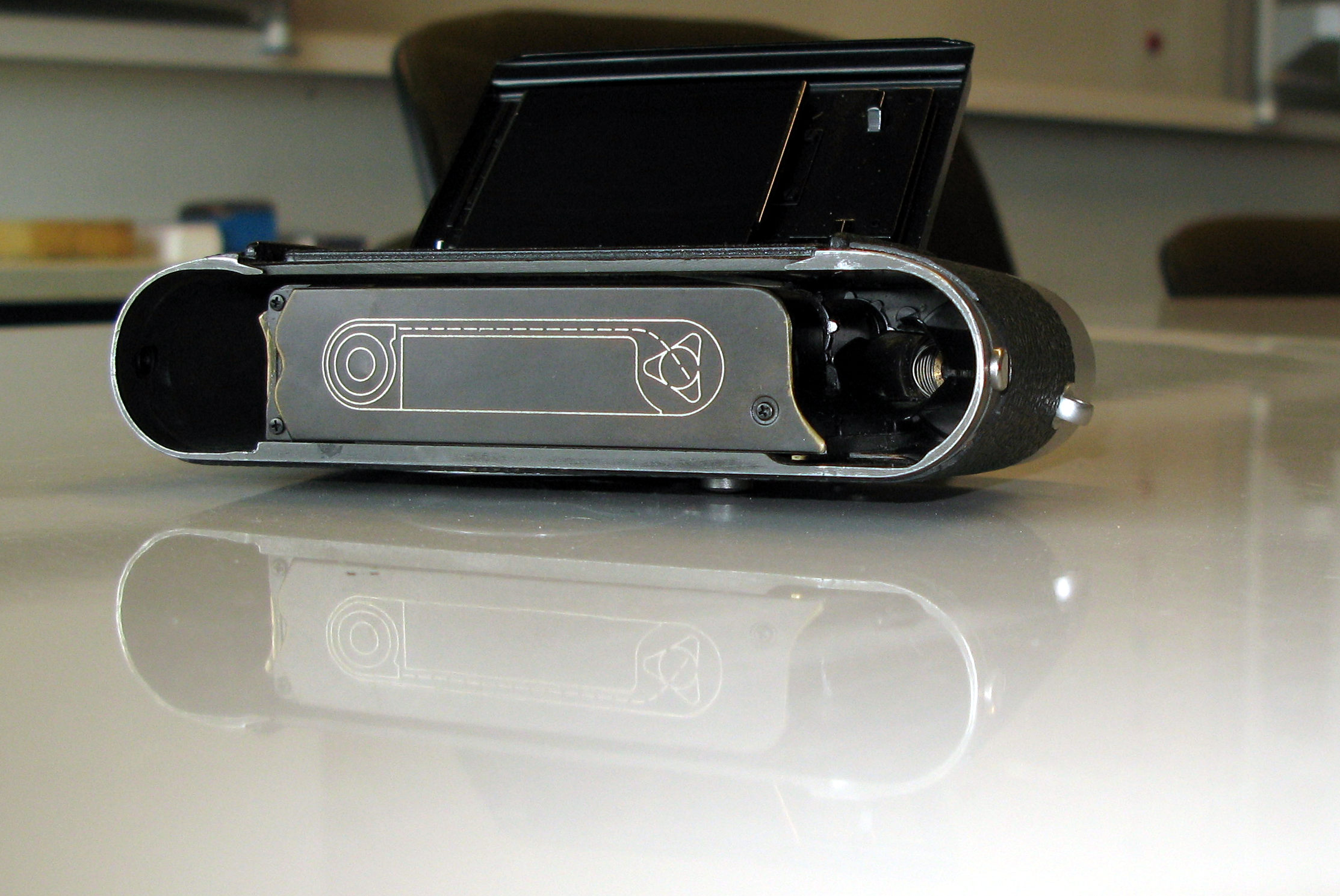 Leica MDa